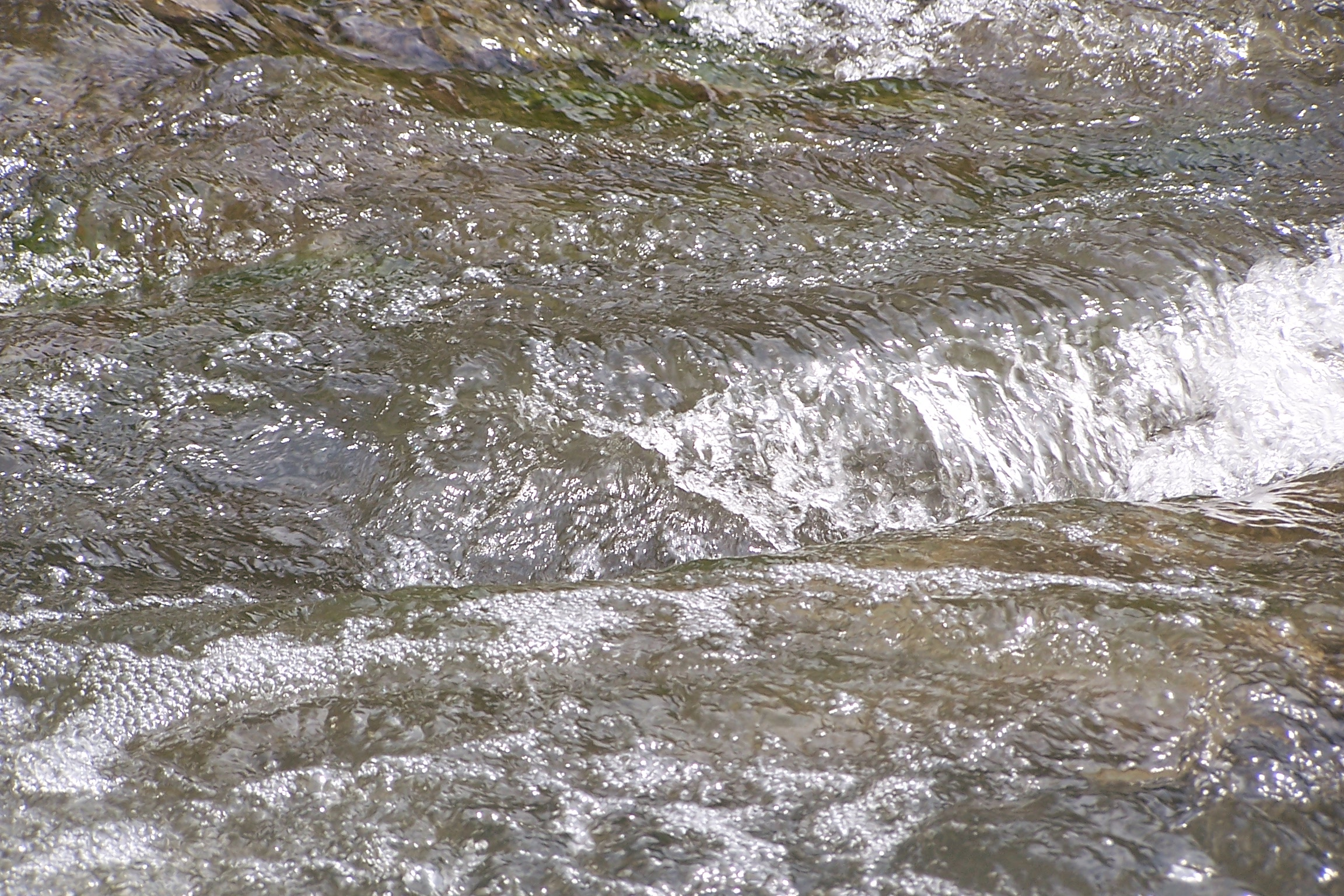 Algeti River, near Manglisi